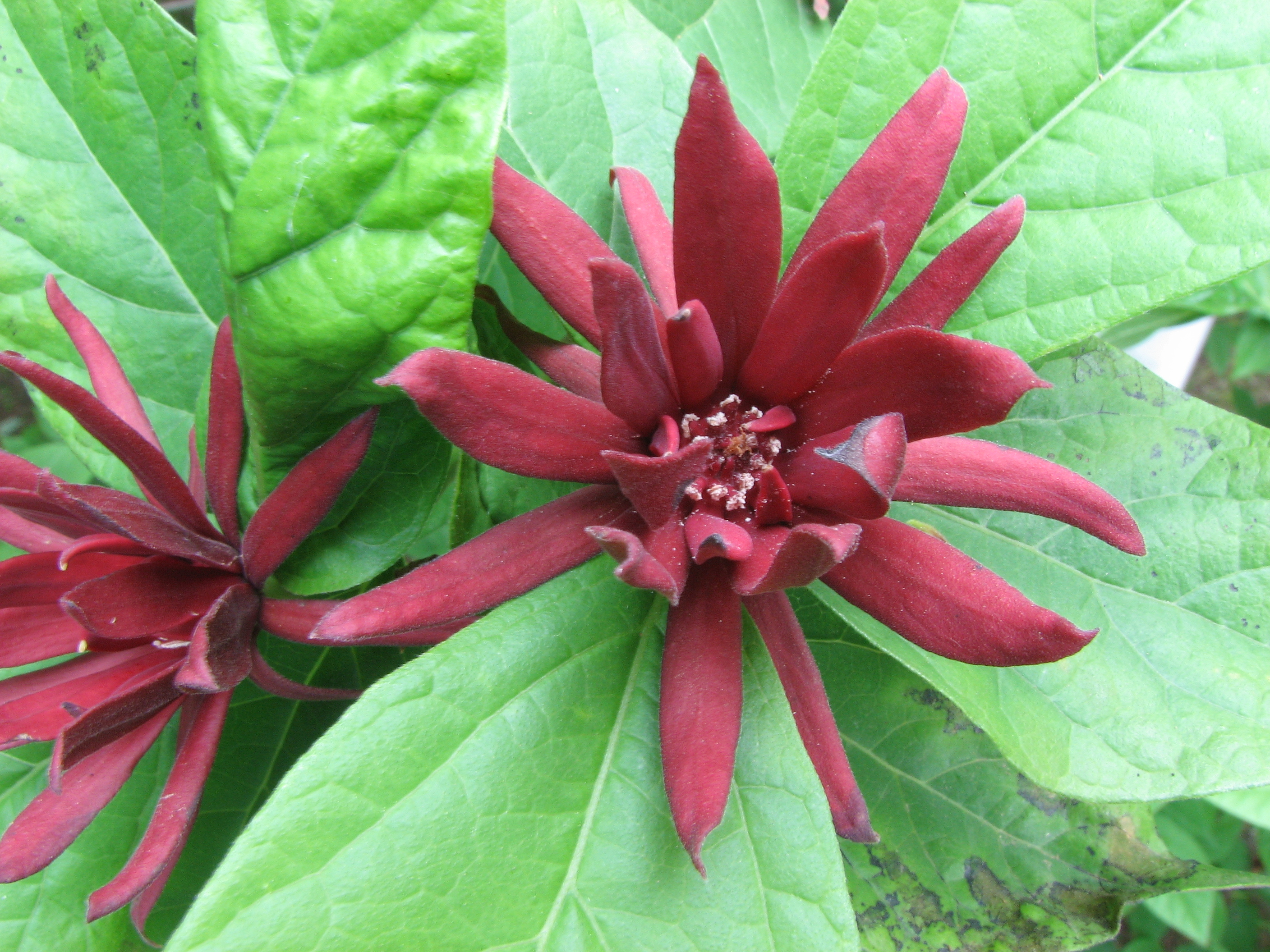 Calycanthus floridus at National Museum of Japanese History botanical garden.